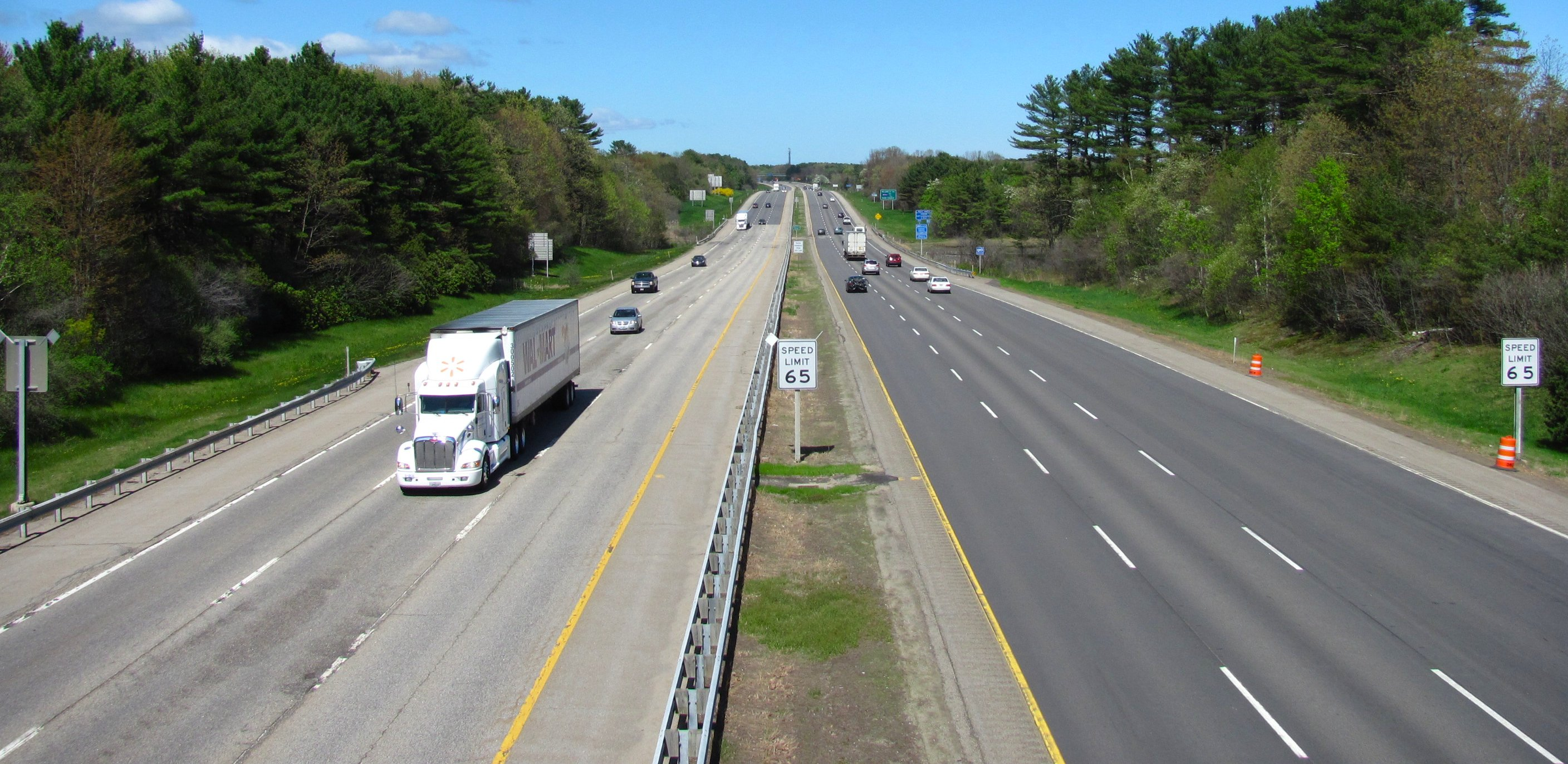 Interstate 95 northbound, from the ME Route 101 overpass, Kittery Maine